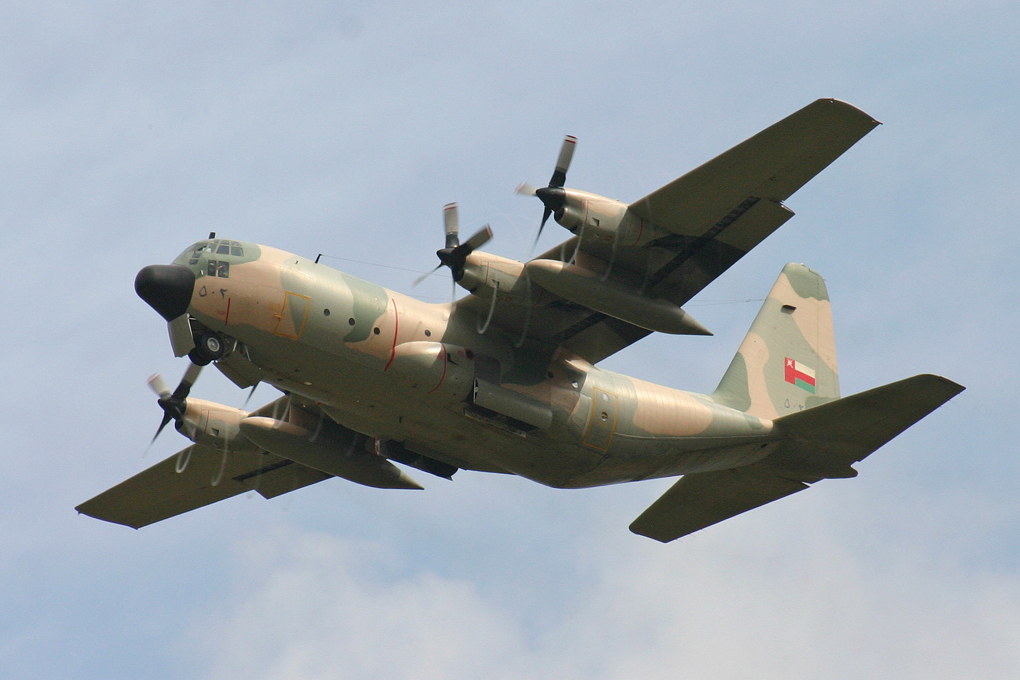 Royal Air Force of Oman 16sqn. Allocated US military serial 82-0050. msn 4916. Departing RIAT Fairford. 18-7-2011